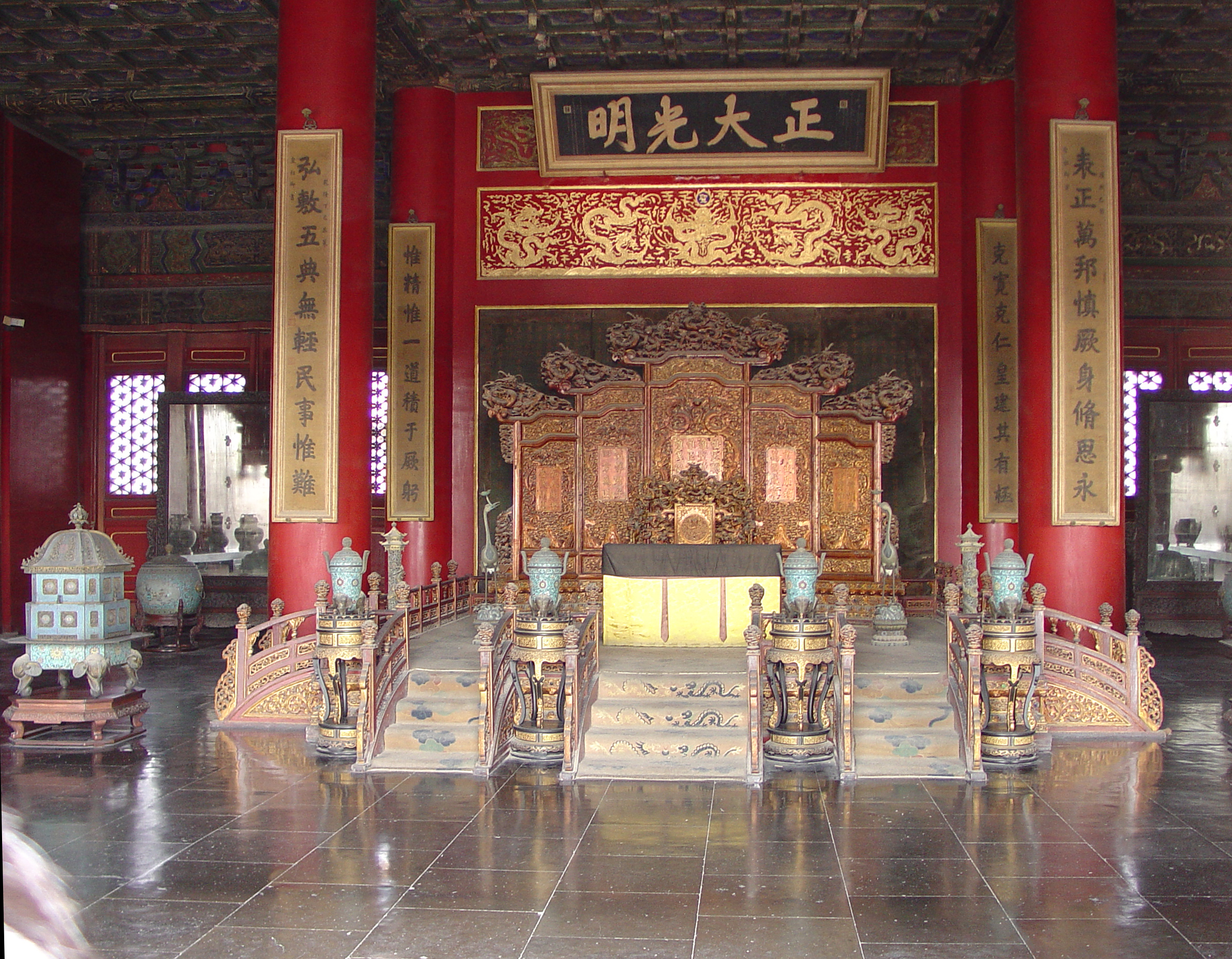 Interior of the Palace Of Heavenly Purity. Forbidden City, Beijing The emperor was "on view" here to his intimates. Having decided upon a successor, the emperor would write the name in a box and hide it behind the the placard (gold on black, photo top), to be opened only upon his death.